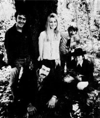 Trade ad for ABC / Dunhill Records featuring Smith. To better adapt it to his respective Wikipedia article, the ad was cropped and cleaned in a graphics editing program. The original can be viewed at the source below.